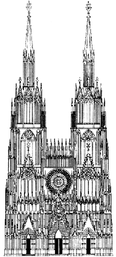 Concept for the western front of Strasbourg Cathedral